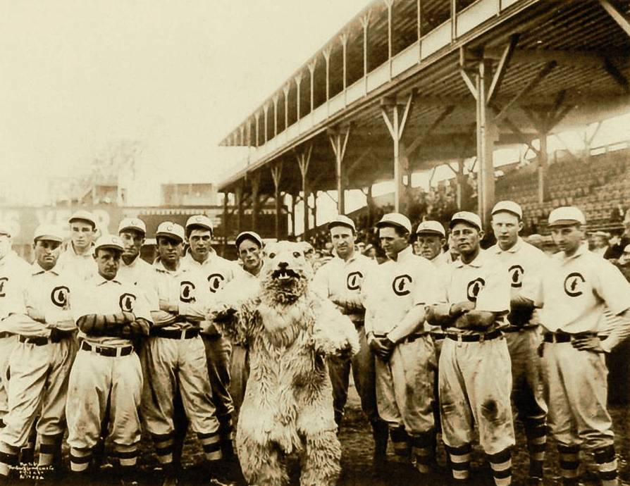 1908 Chicago Cubs with mascot